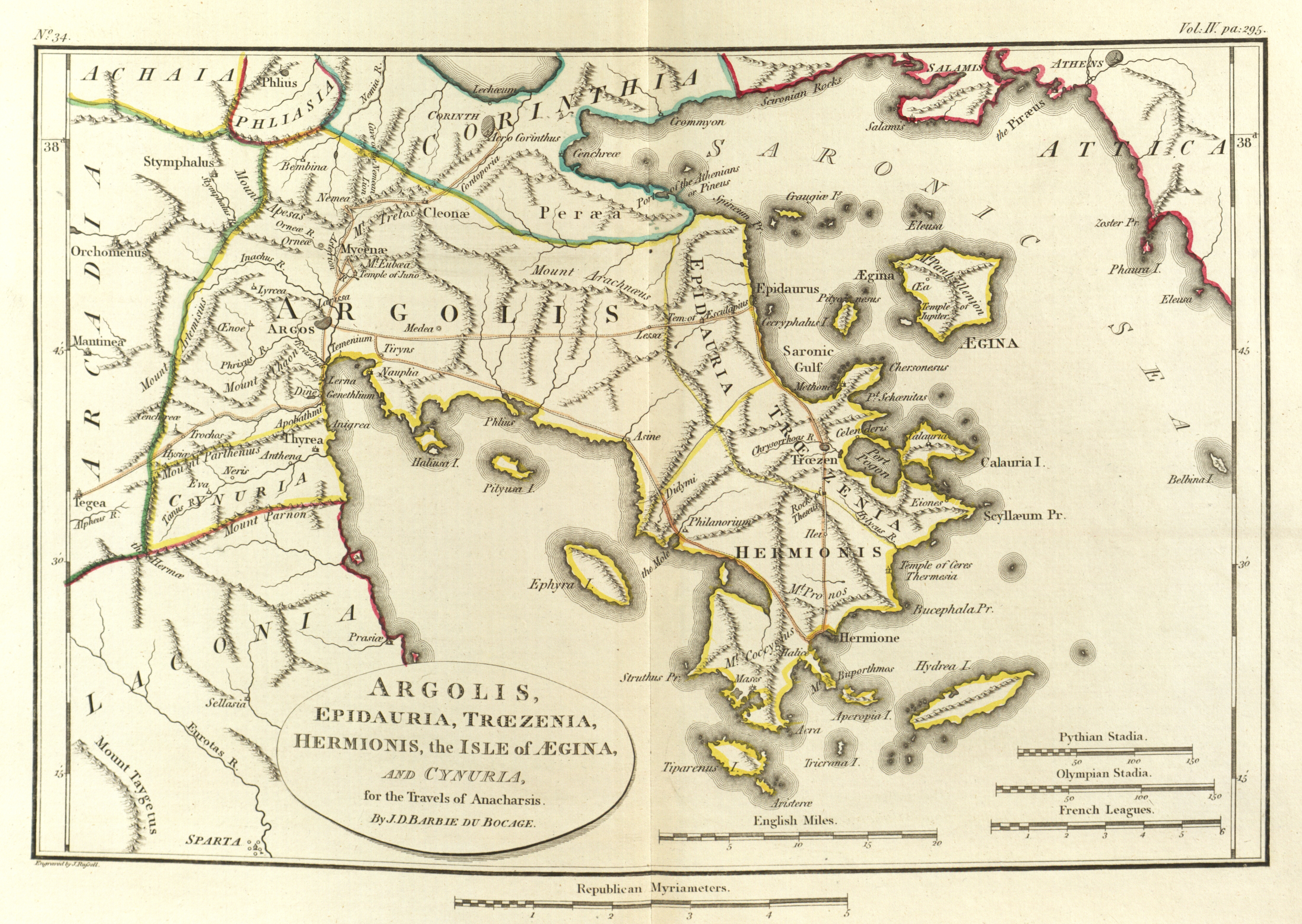 Scan of Map of Argolis. This image is in the public domain because it is a mere mechanical scan or photocopy of a public domain original, or – from the available evidence – is so similar to such a scan or photocopy that no copyright protection can be expected to arise. The original itself is in public domain for the following reason: This work is in the public domain in its country of origin and other countries and areas where the copyright term is the author's life plus 100 years or less. This work is in the public domain in the United States because it was published (or registered with the U.S. Copyright Office) before January 1, 1923. This file has been identified as being free of known restrictions under copyright law, including all related and neighboring rights. This tag is designed for use where there may be a need to assert that any enhancements (eg brightness, contrast, colour-matching, sharpening) are in themselves insufficiently creative to generate a new copyright. It can be used where it is unknown whether any enhancements have been made, as well as when the enhancements are clear but insufficient. For known raw unenhanced scans you can use an appropriate PD-old tag instead. For usage, see Commons:When to use the PD-scan tag. Note: This tag applies to scans and photocopies only. For photographs of public domain originals taken from afar, PD-Art may be applicable. See Commons:When to use the PD-Art tag.